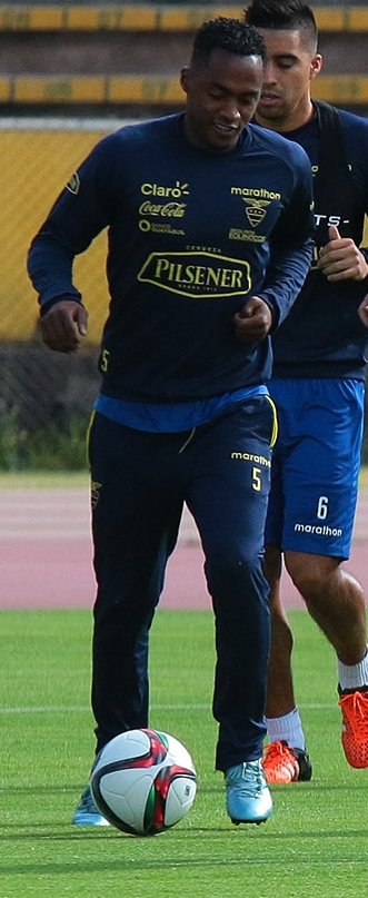 Renato Ibarra